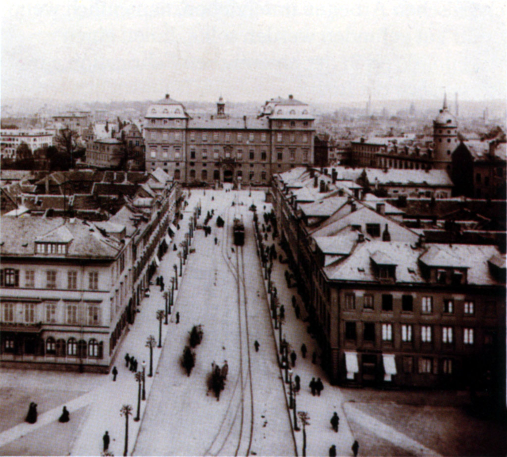 The city of Darmstadt ca. 1866.